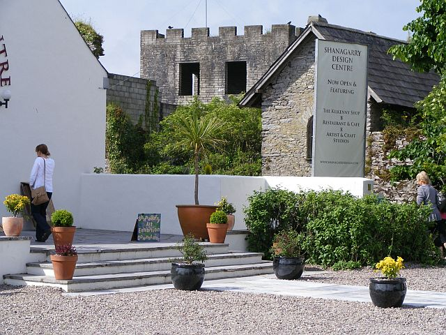 Shanagarry Castle, Shanagarry, Cork, near to Monagurra, Ballybraher, Loughane, Baile Choitin and Shanagarry, Cork, Ireland. Shanagarry Castle once belonged to William Penn, founder of the Commonwealth of Pennsylvania. At the time of the founding in 1681 it was known as the Province of Pennsylvania.